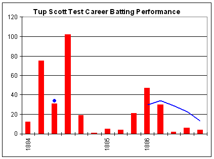 Test batting chart of Tup Scott. Red columns are the runs in the innings. Blue dots indicate not outs. Blue line is average in the last ten innings. Thanks to Raven4x4x for providing the template.